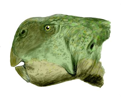 Head of Psittacosaurus lujiatunensis (formerly P. major), one of the numerous species of Psittacosaur from the Early Cretaceous of China, pencil drawing